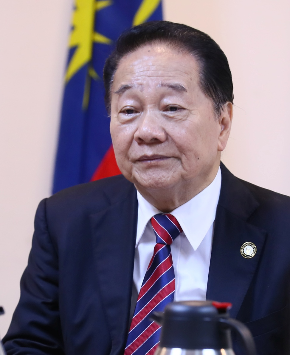 Dato Sri Wong Soon Koh in his office during a courtesy visit by UNIMAS.